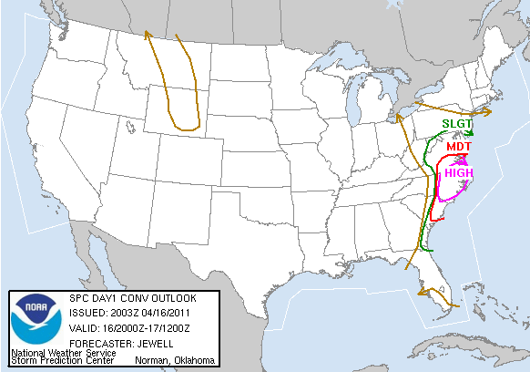 2000 Covective outlooks from April 16, 2011